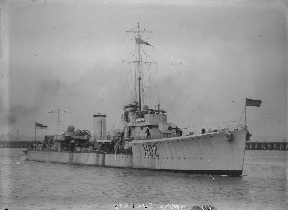 HMAS Success